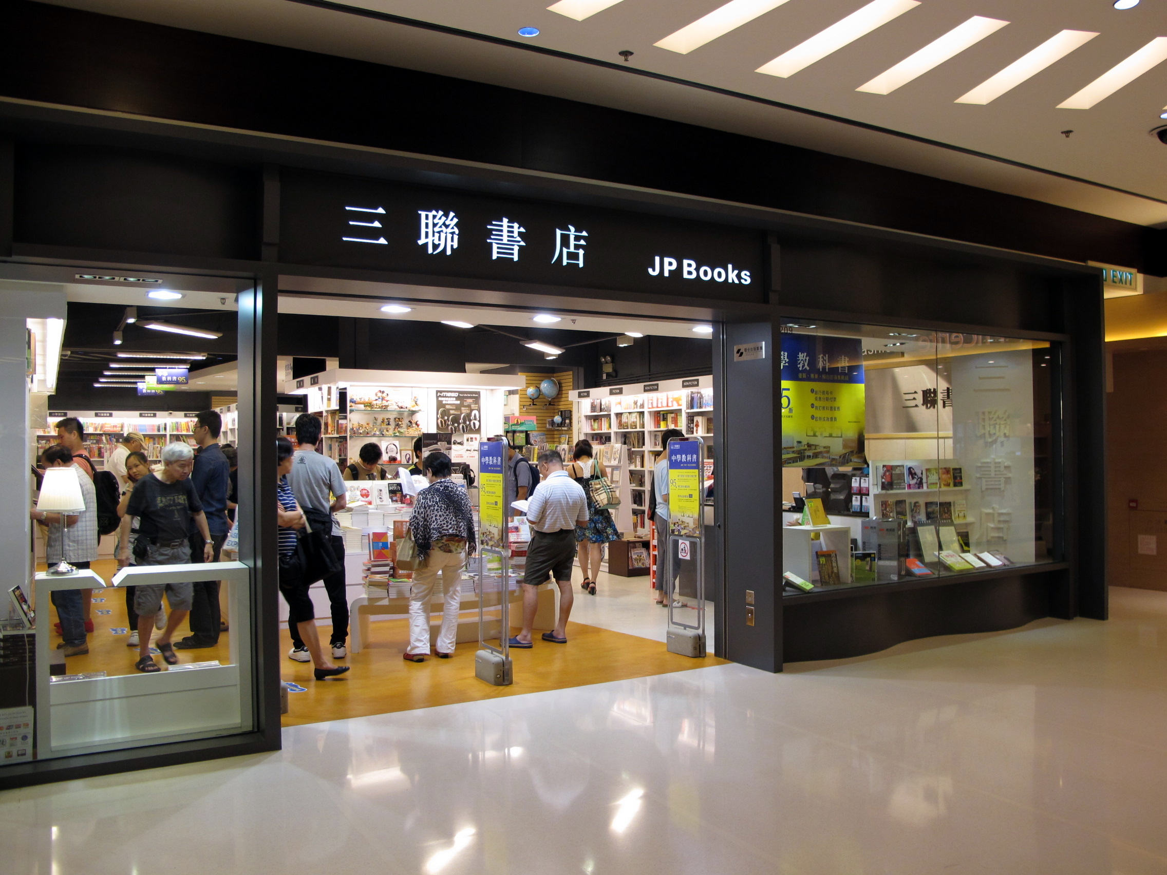 JP Books in Maritime Square